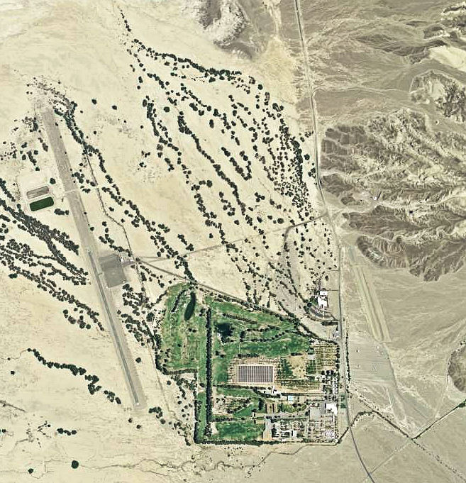 USGS digital orthophoto of Furnace Creek Airport in California